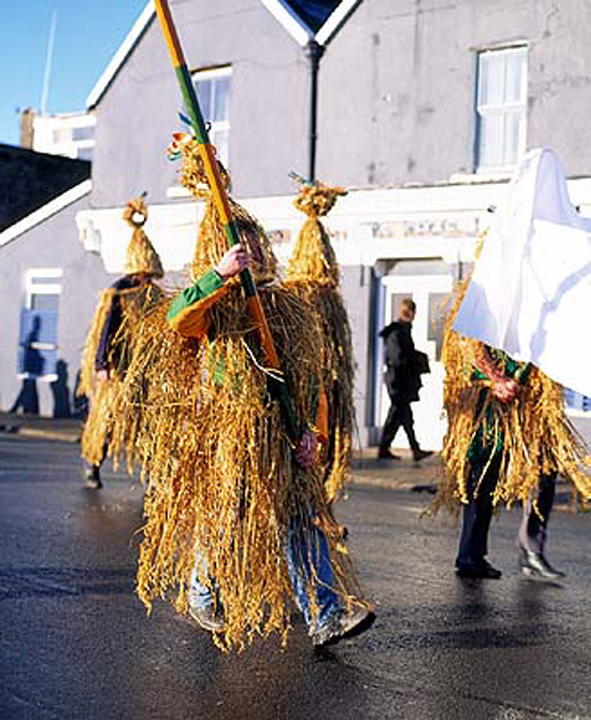 A little bit of cheating on today's Pic of the Day! It was taken on St. Stephen's Day (26 December) in Dingle, Co. Kerry. However we're unsure of the year. It was somewhere between 1980 and 1999. This is the Wren Boys in full flight. Lá an Dreoilín is still celebrated in many parts of Ireland... Date: 26 December [1980-99] NLI Ref.: DIG5